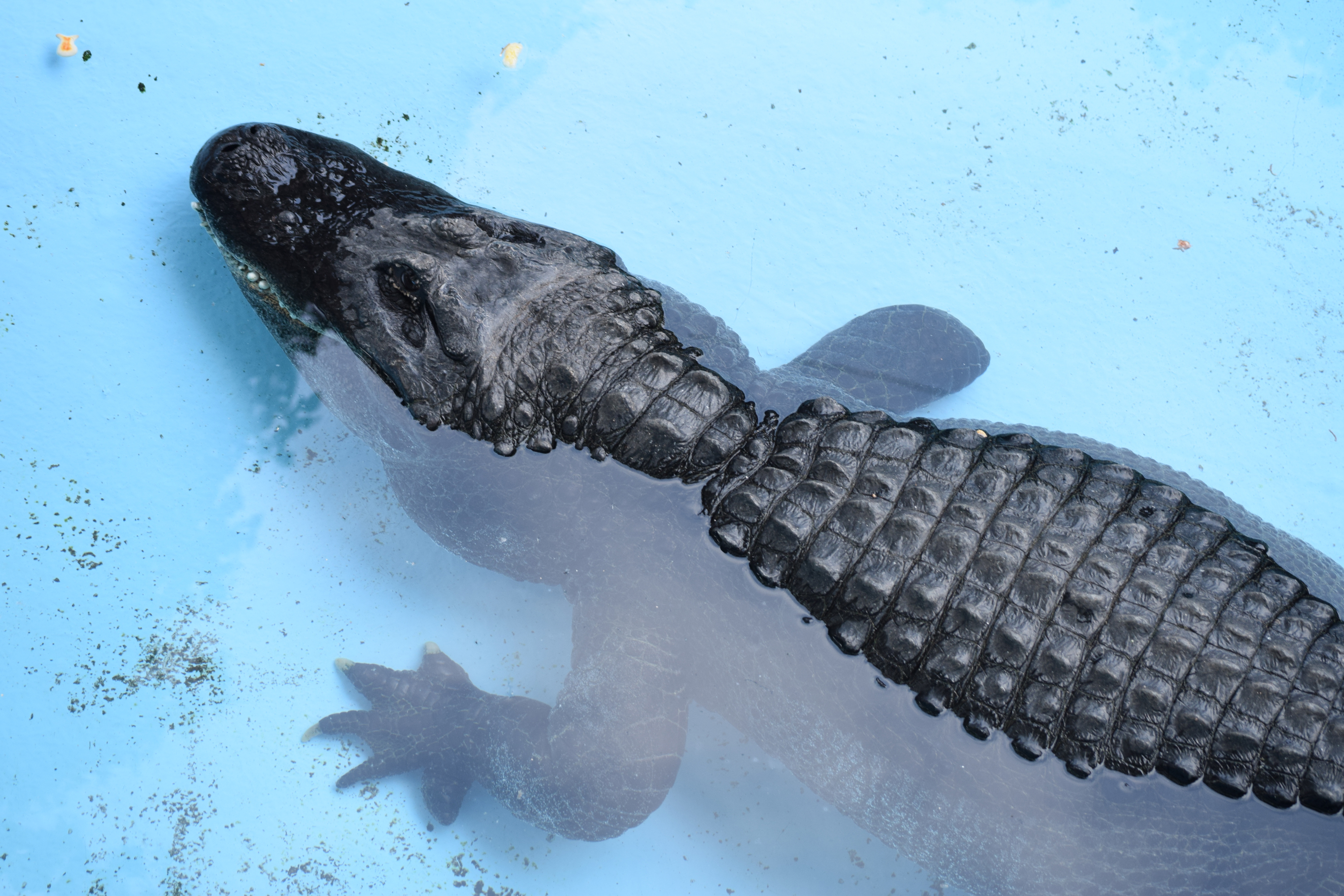 Alligator Muja at the Belgrade Zoo (currently relevant data) is the oldest of its kind in the world.